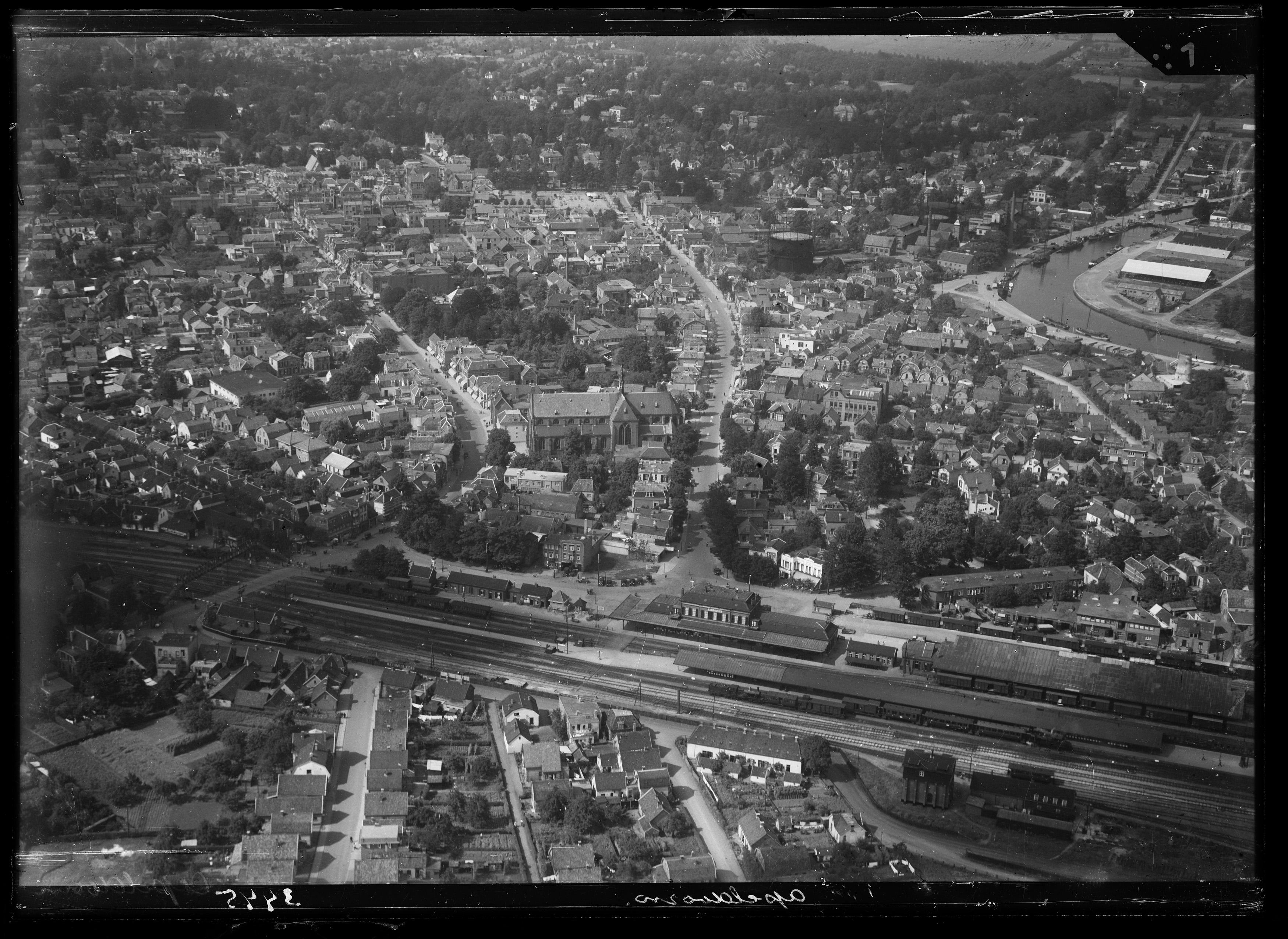 Aerial photograph of Apeldoorn, The Netherlands. Railway Station Apeldoorn.